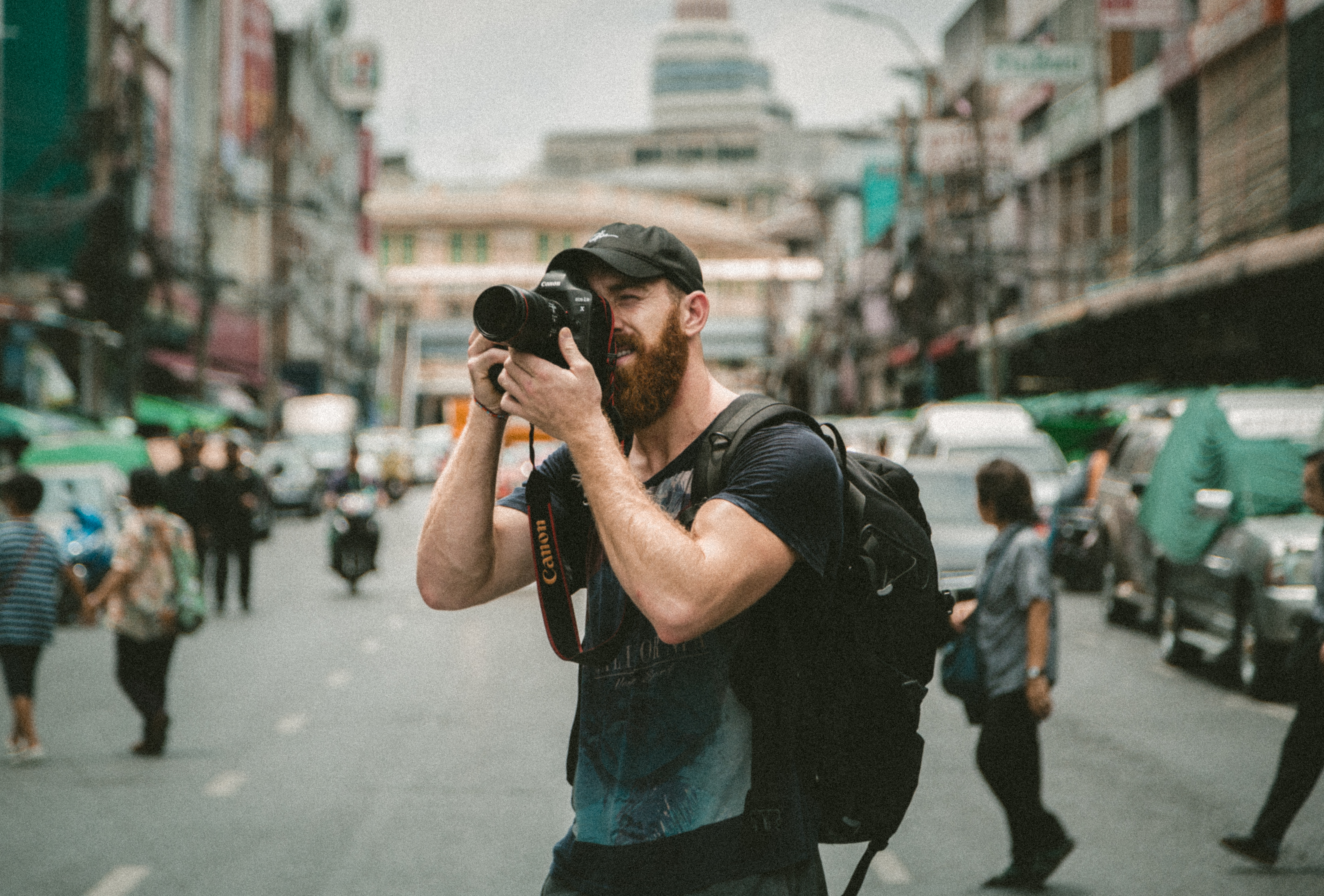 Bangkok, Thailand